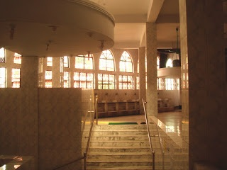 sdfsdrfsfsrwr